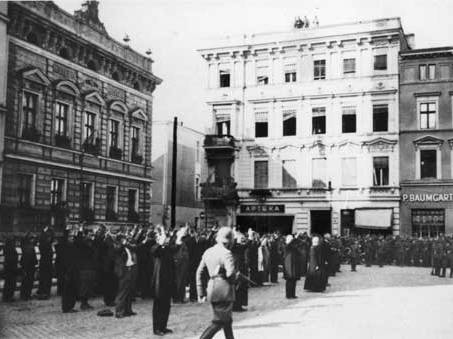 Polish hostages guarded by the Wehrmacht solidiers. Old Market Square in Bydgoszcz. September 1939